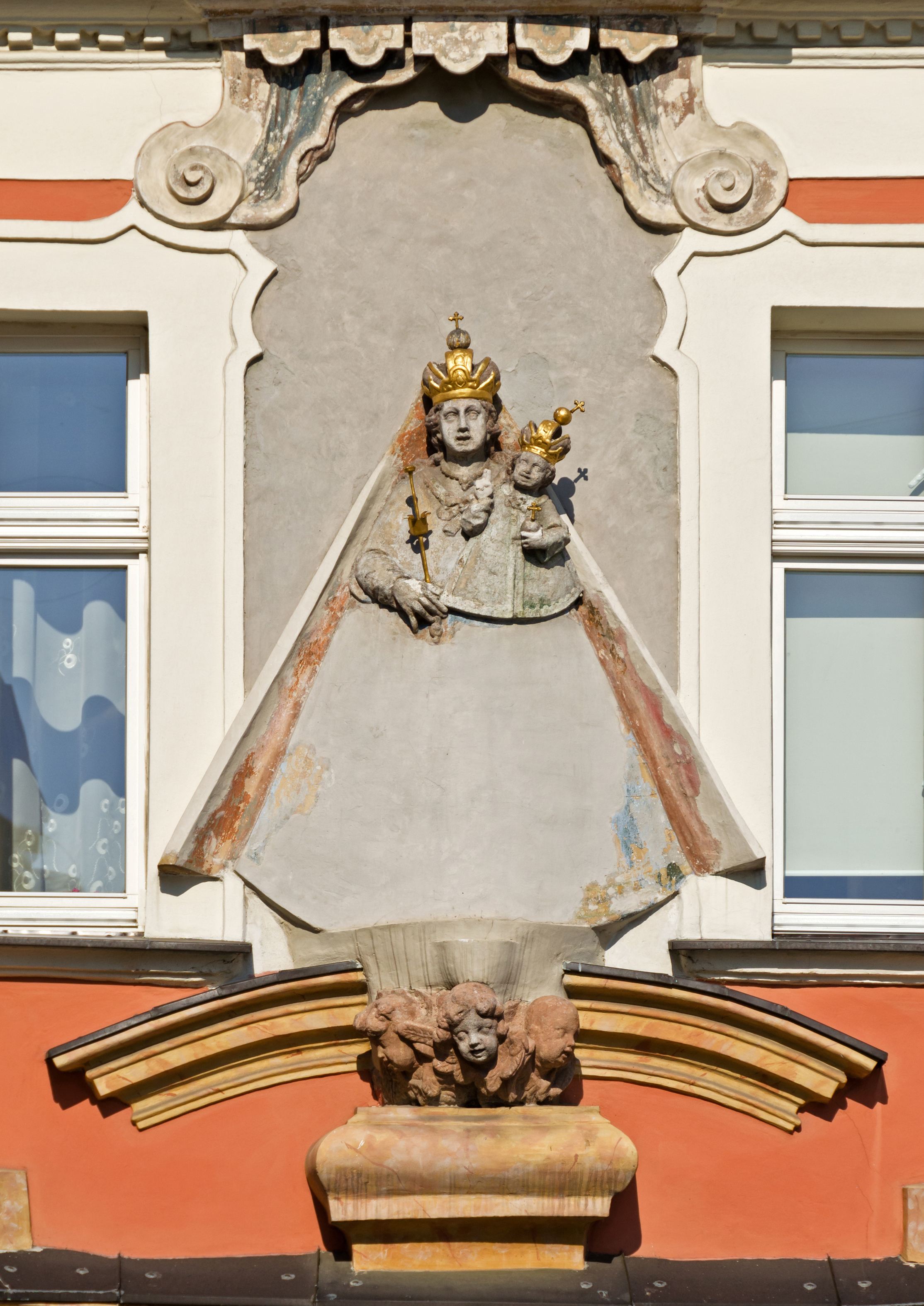 Klahr House in Lądek-Zdrój, Virgin Mary with Children sculpture